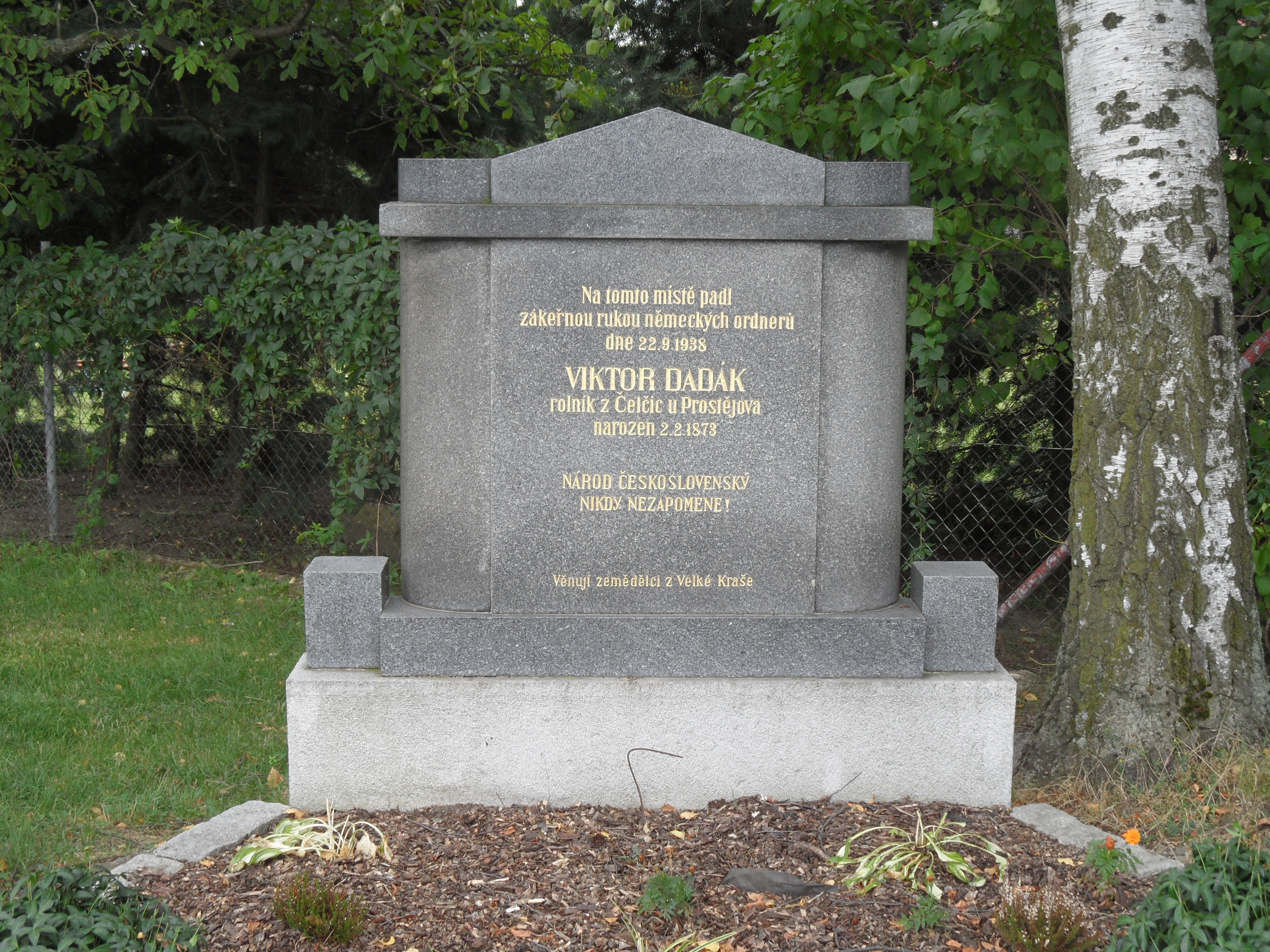 Malá Kraš: Memorial of Viktor Dadák. Detail. Jeseník District, the Czech Republic.